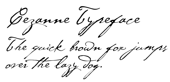 I made it this image. This is an example of the Cézanne font set based on Paul Cézanne's handwriting and sketches created by the Philadelphia Museum of Art by designers Michael Want and Richard Kegler in 1996.